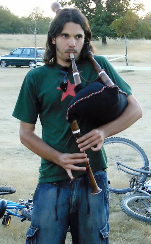 A player of the gaita sanabresa, a bagpipe from Sanabria, in northwestern Spain. Photo taken in Codesal, Manzanal de Arriba, Zamora, Castile and Leon, Spain, with a digital camera. The photo was taken during a popular celebration called "Raices" ("Roots"), where residents of Zamora try to recover traditions of their culture, and the gaita sanabresa is one of the stars.